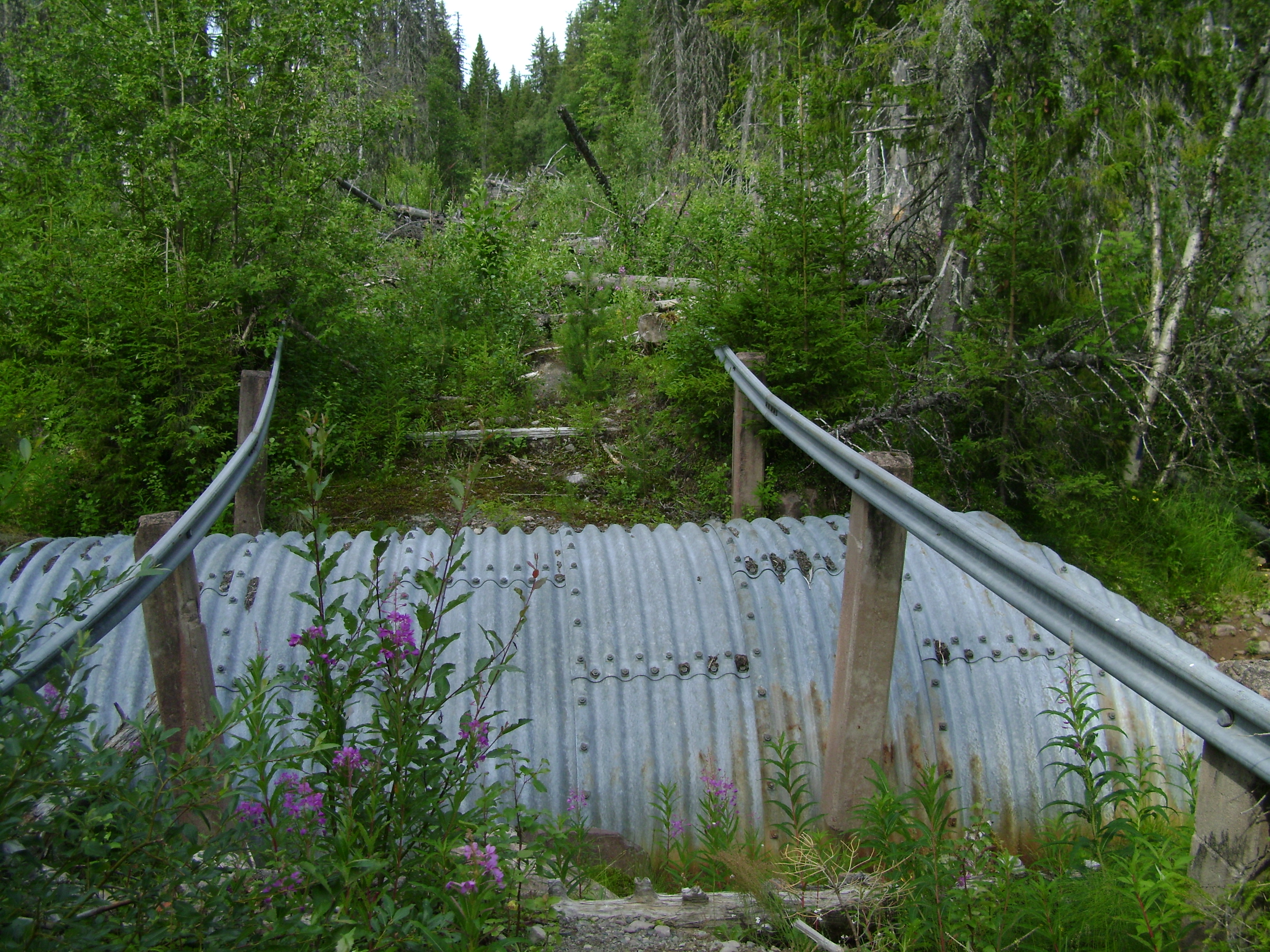 Destroyed road in Göljan valley in Fulufjället, Dalarna, Sweden